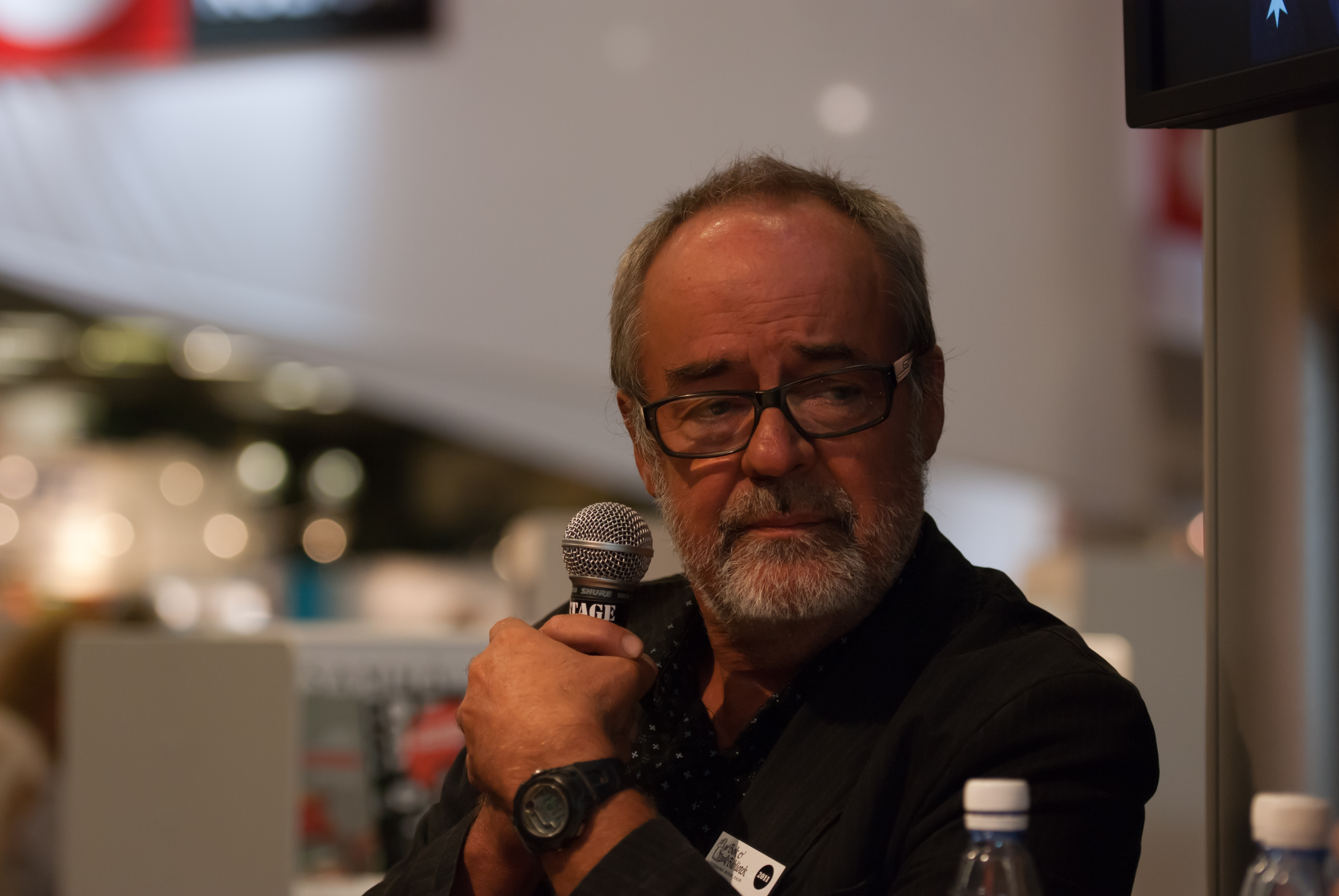 Bo R. Holmberg at Göteborg Book Fair 2011.